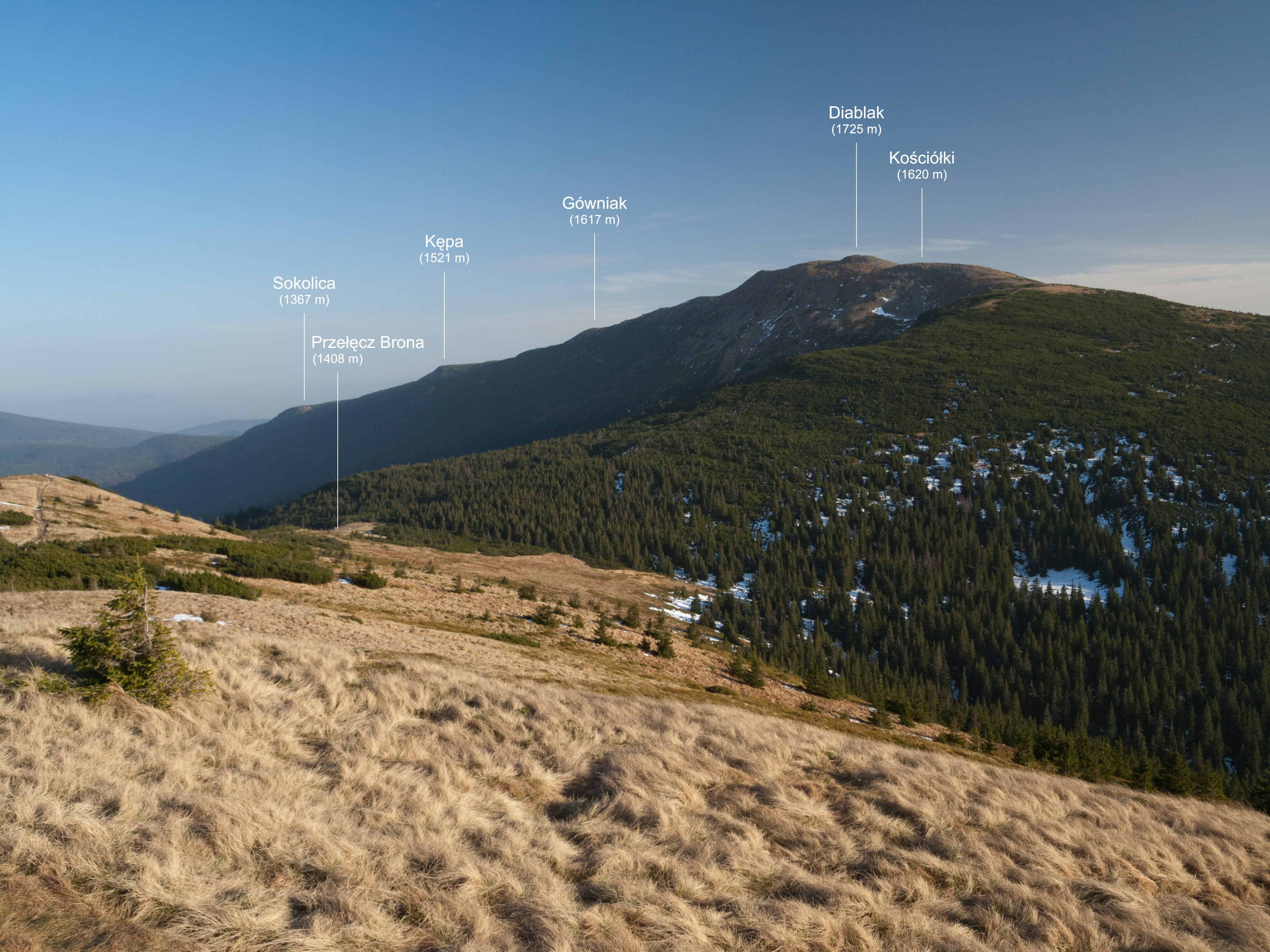 The massif of Babia Góra – view from Mała Babia Góra.